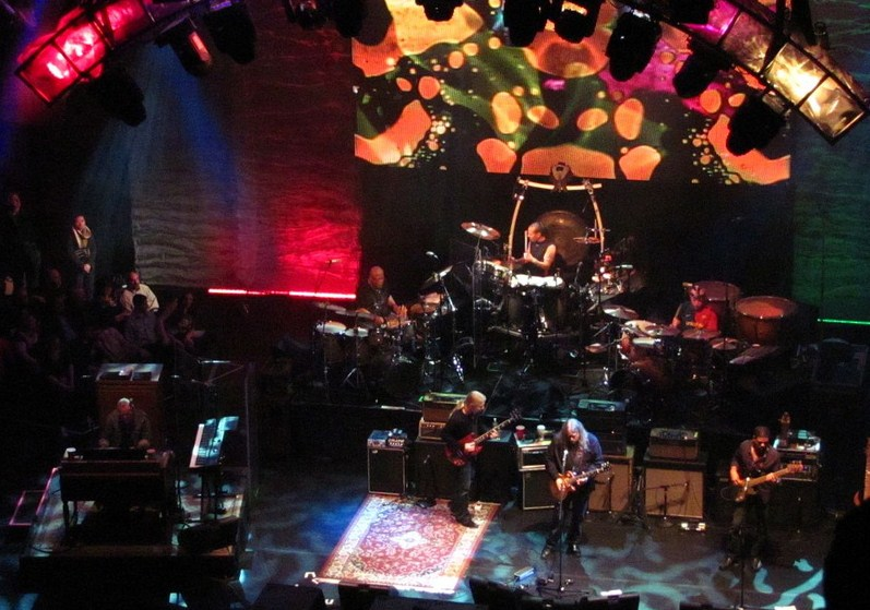 The Allman Brothers Band performing live at Beacon Theater, 2011.